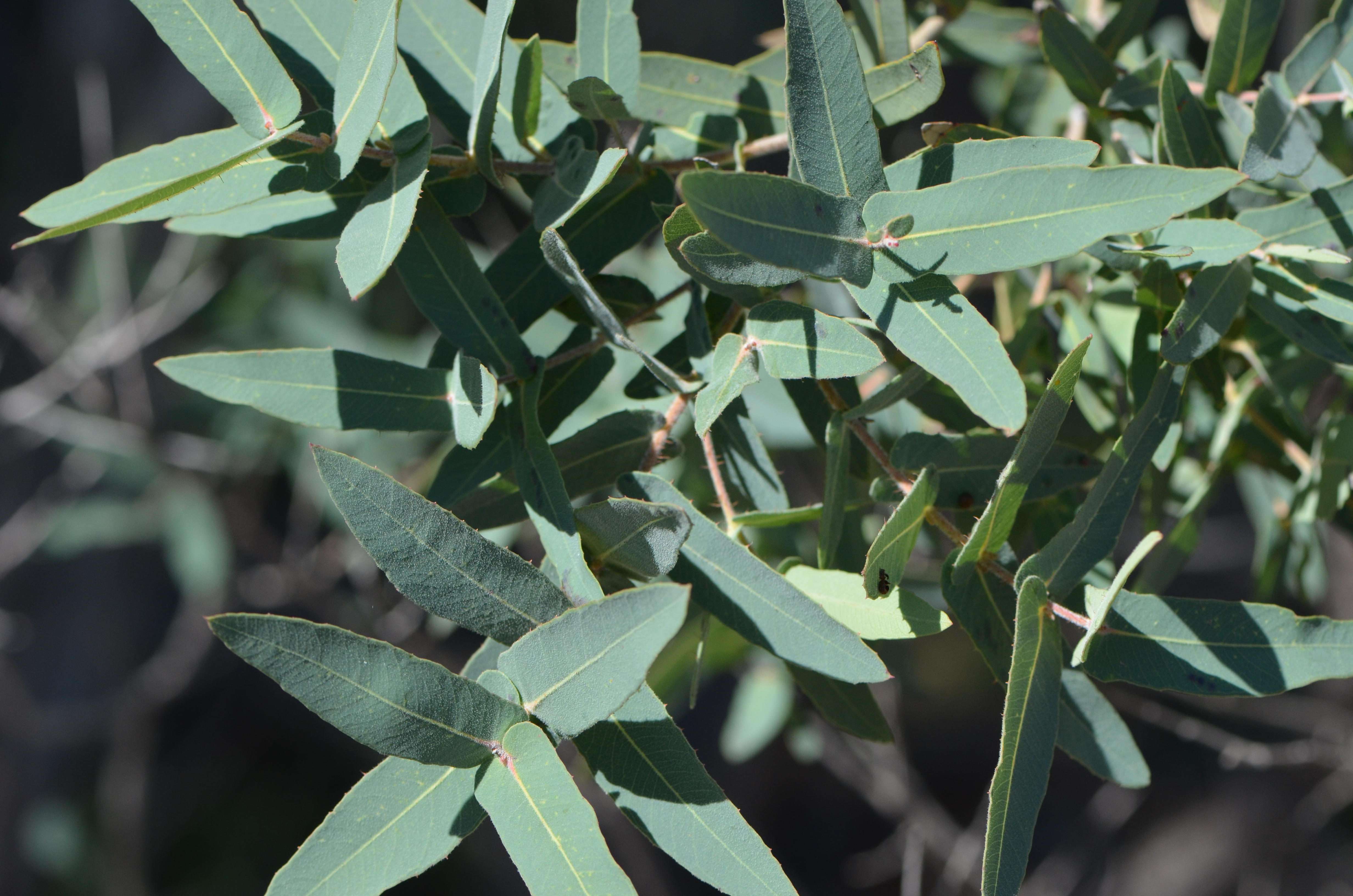 Angophora melanoxylon, Bourke - Macquarie Marshes, before the Macquarie Marshes turnoff, New South Wales showing the opposite and decussate leaves